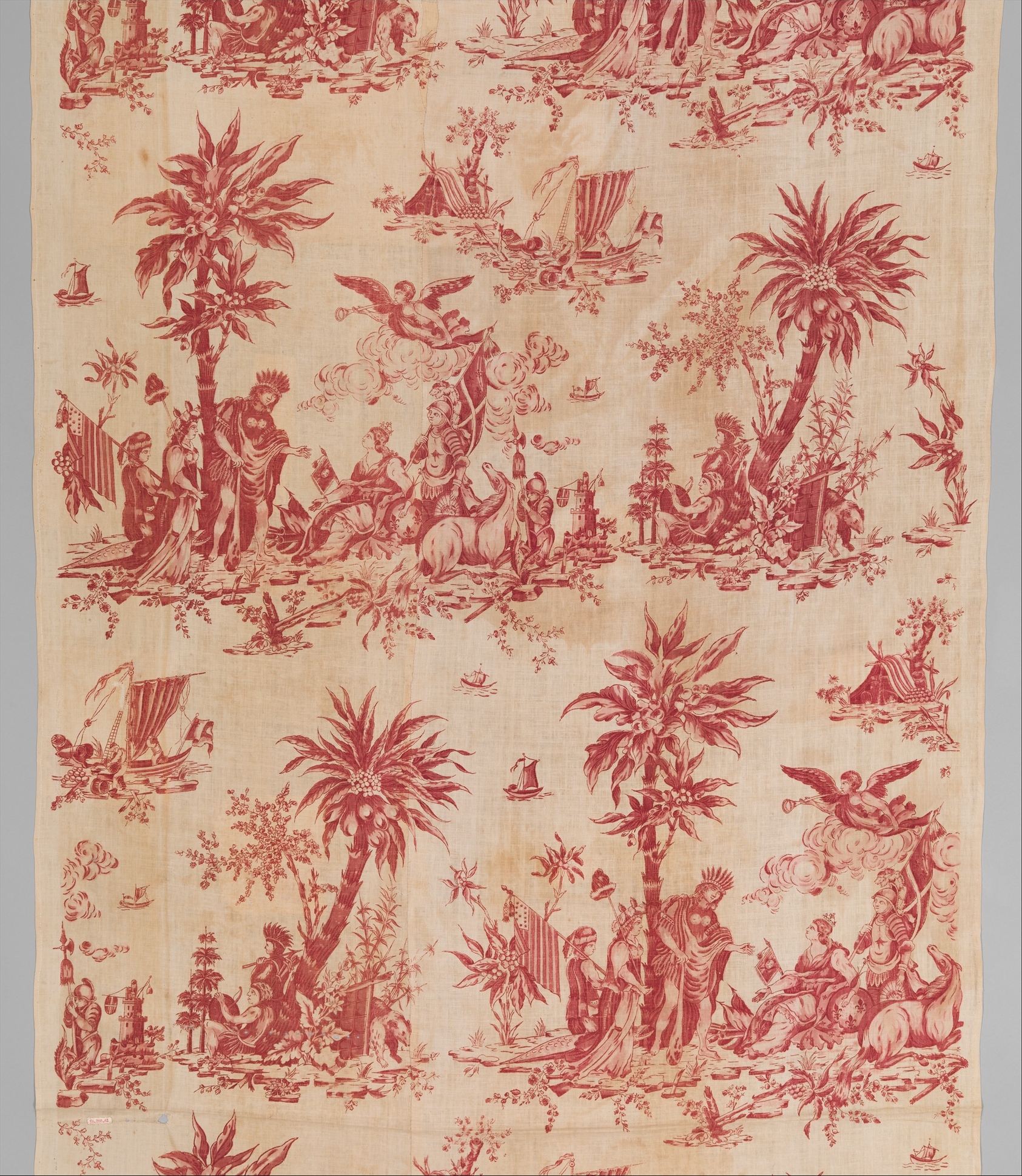 French, Nantes; Furnishing textile; Textiles-Printed